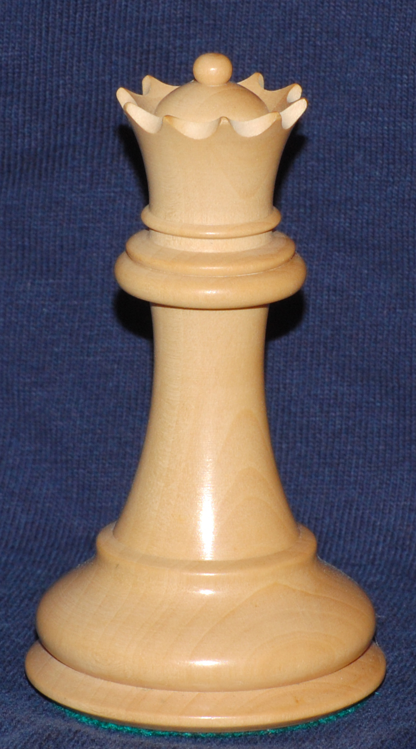 Queen from my House of Staunton "Marshall" chess set